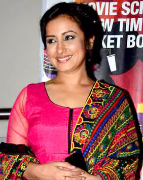 Divya Dutta at Prosenjit's film screening